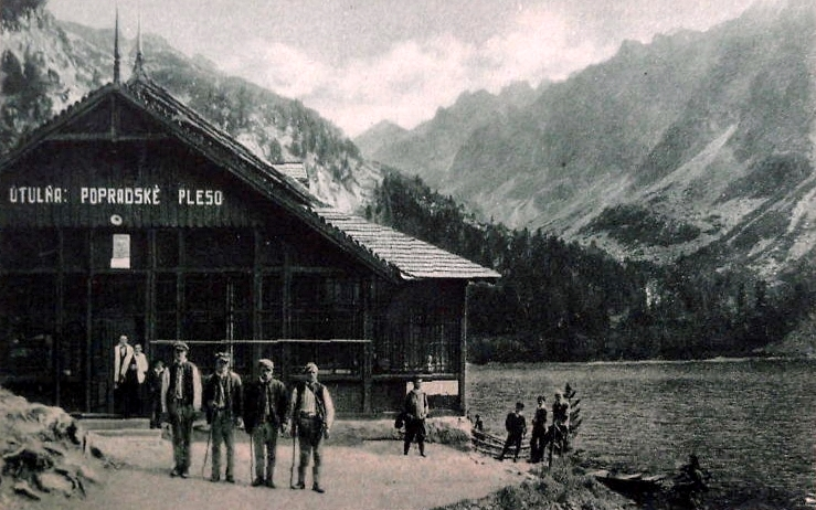 Majláth mountain shelter (Popradské pleso hut) by Popradské pleso lake, nowadays in Slovak High Tatras